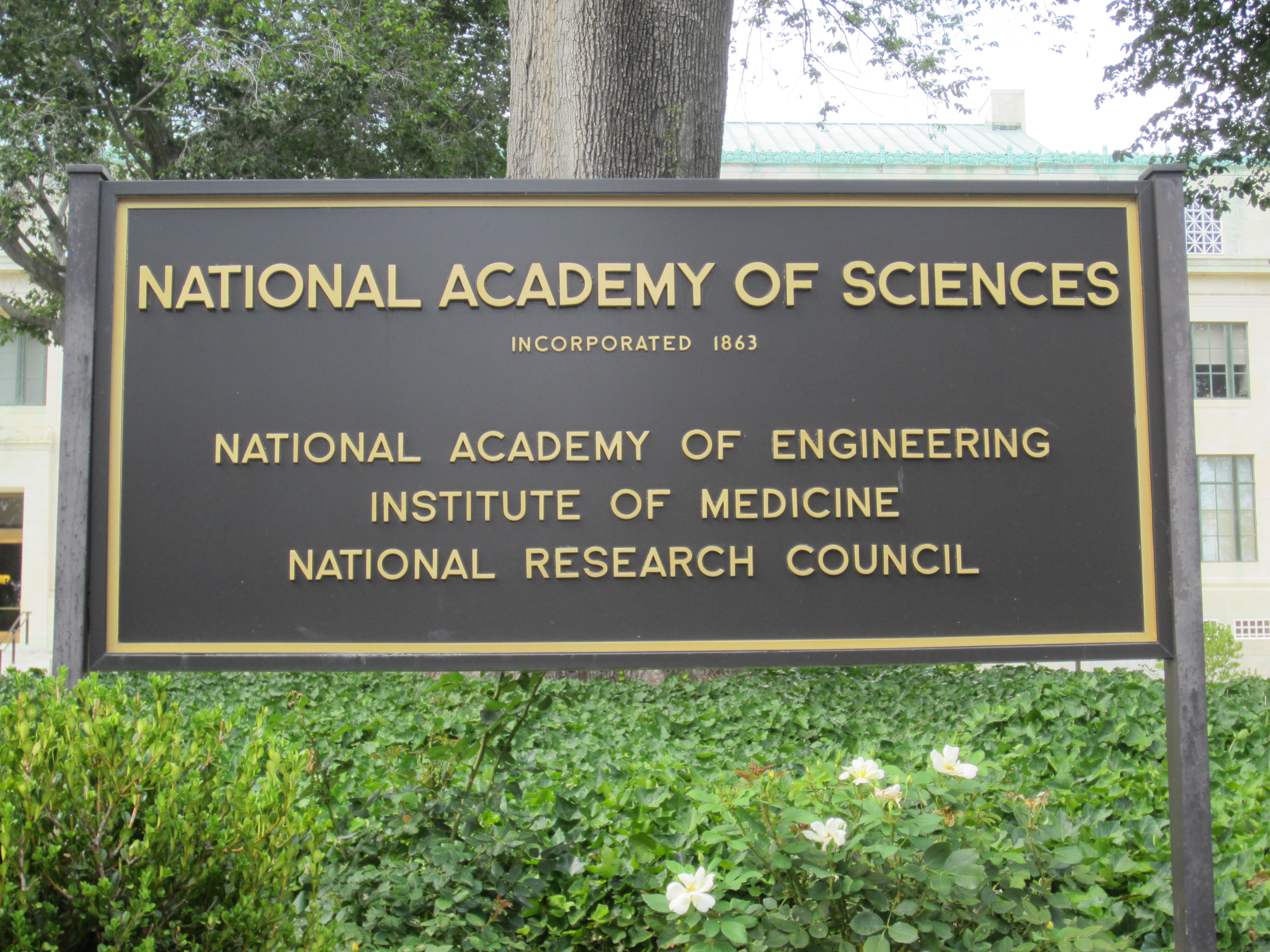 National Academy of Sciences, Washington, D.C. (2012)